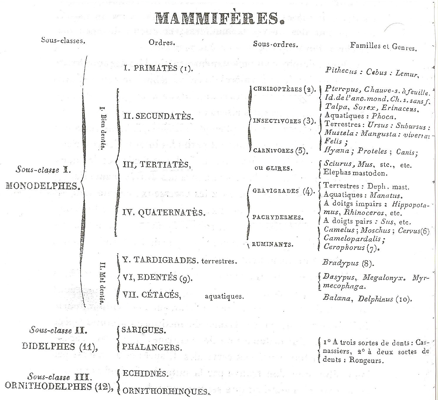 BLAINVILLE, Henri-Marie Ducrotay de (1839): “Nouvelle classification des Mammifères” in Annales Françaises et Etrangères d’Anatomie et de Physiologie Appliquées à la Médicine et à l’Histoire, 3, p. 268.